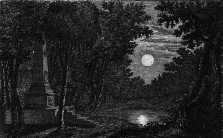 "Gegend von Brandt mit Sulzers Denkmal" ('Monument, memorial for Sulzer by Brandt')- The image is from page 61 in volume two of C.C.L. Hirschfeld's Theorie der Gartenkunst Leipzig, 1779-1785. - (Drawings listed page 201-202) Category:Theorie der Gartenkunst Hirschfeld Link to Johann Georg Sulzer